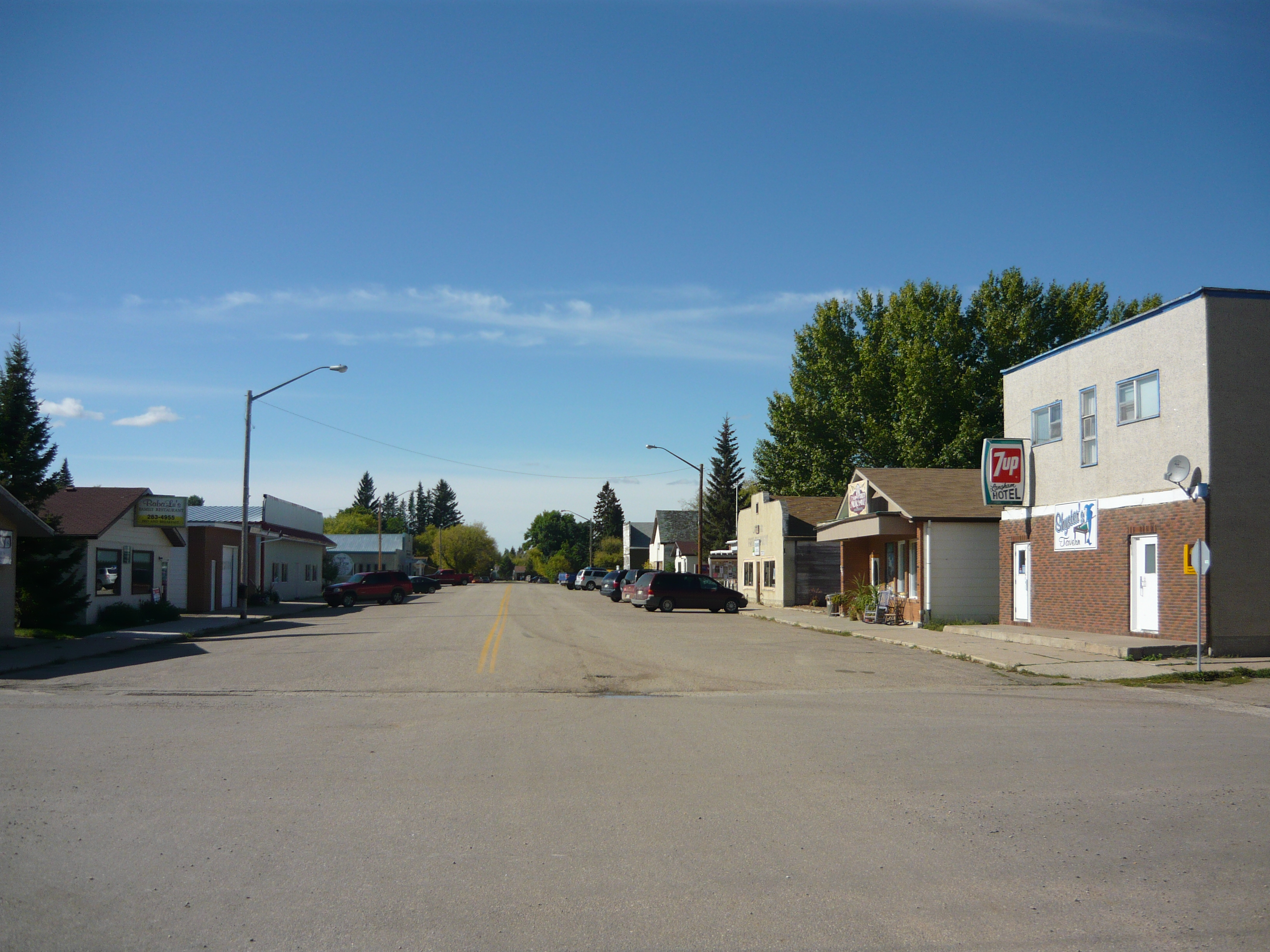 Business district of Langham, Saskatchewan, Canada. Photo taken from intersection of Main Street East and Third Avenue, looking westward on Main Street East. The two-story building at the right is the Langham Hotel.